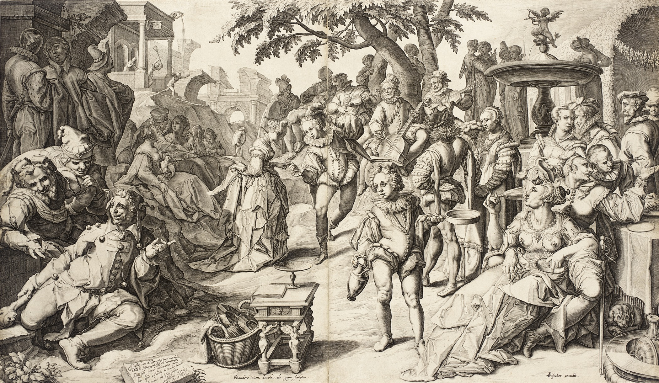 Flanders, 1596 Prints; engravings Engraving Gift of Mary Stansbury Ruiz in honor of Ebria Feinblatt (M.84.135) Prints and Drawings